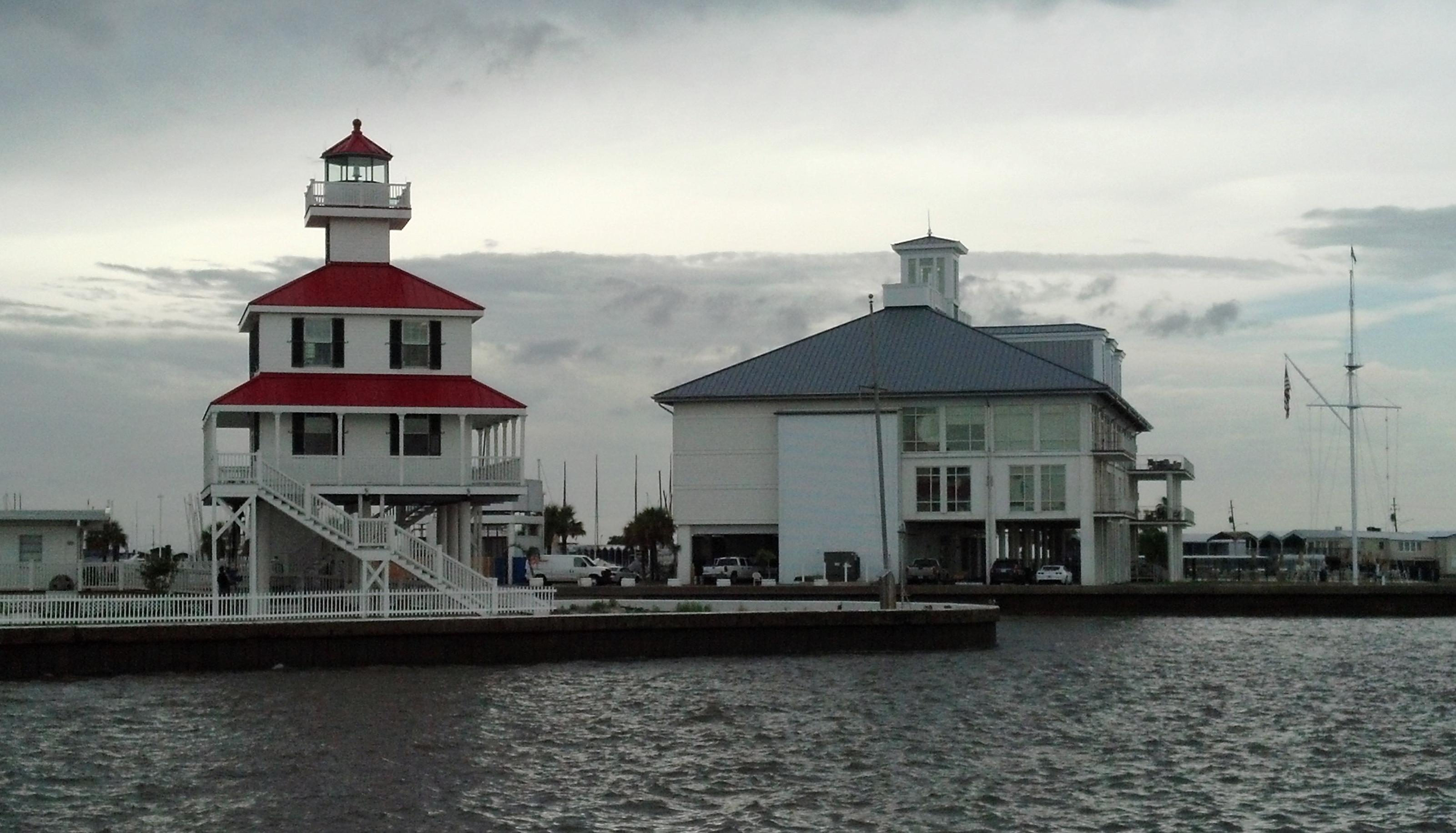 New Basin Canal Lighthouse 2013 - New Orleans, Louisiana